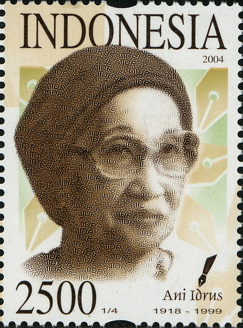 Stamps of Indonesia